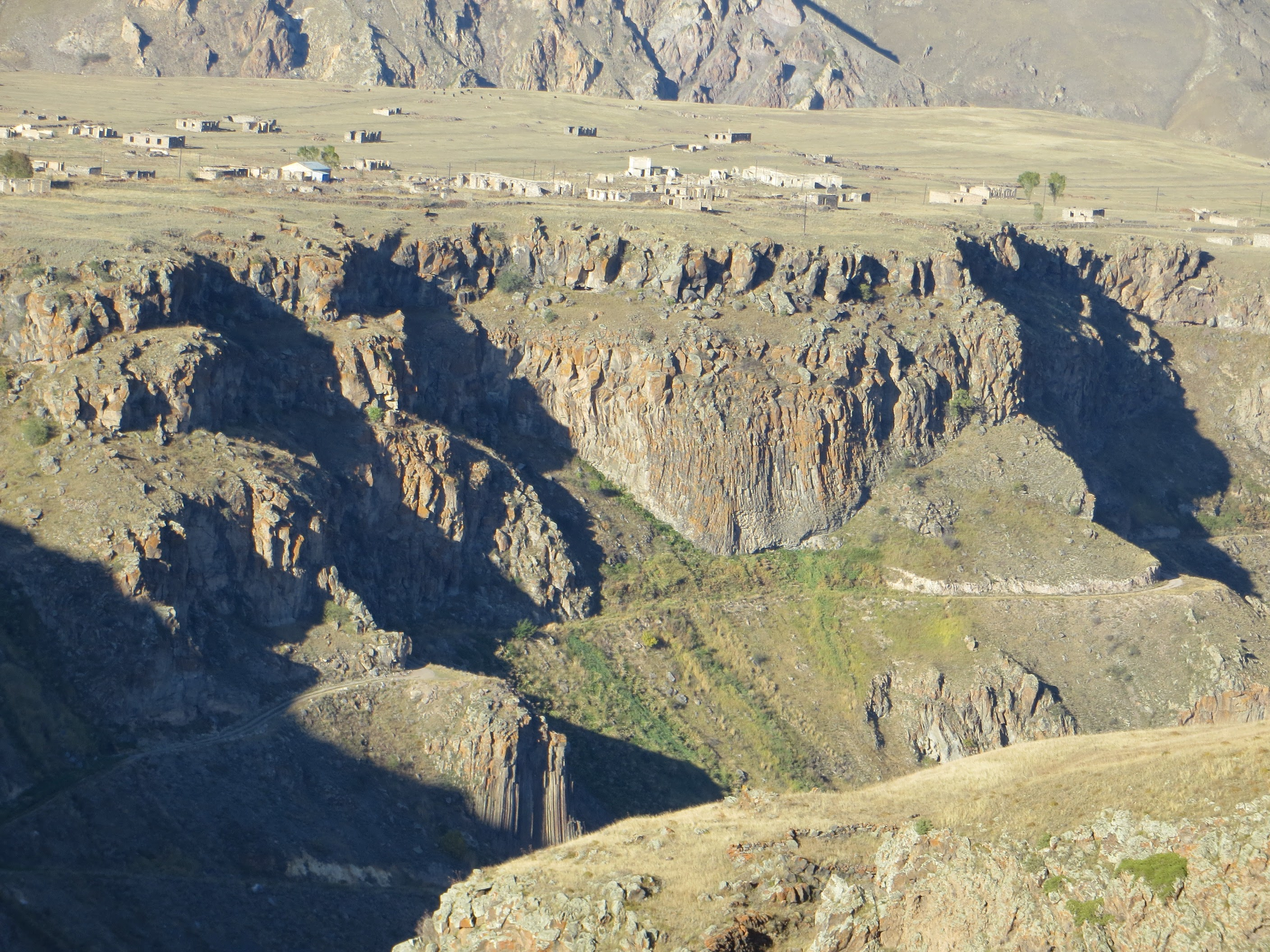 Zar village in Shahumian region of Artsakh Republic